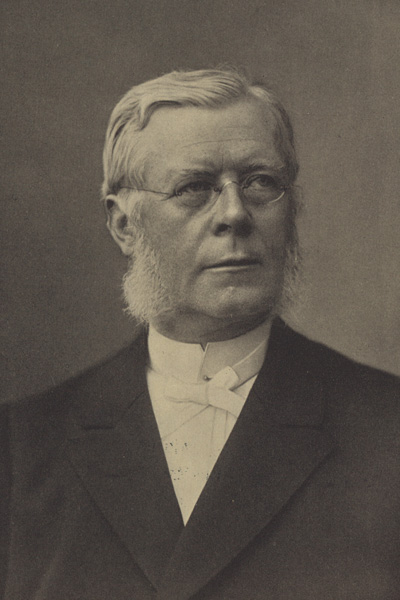 Portrait of Wilhelm Hölscher (1845–1911), German theologist, Pastor of the Nikolai Church in Leipzig